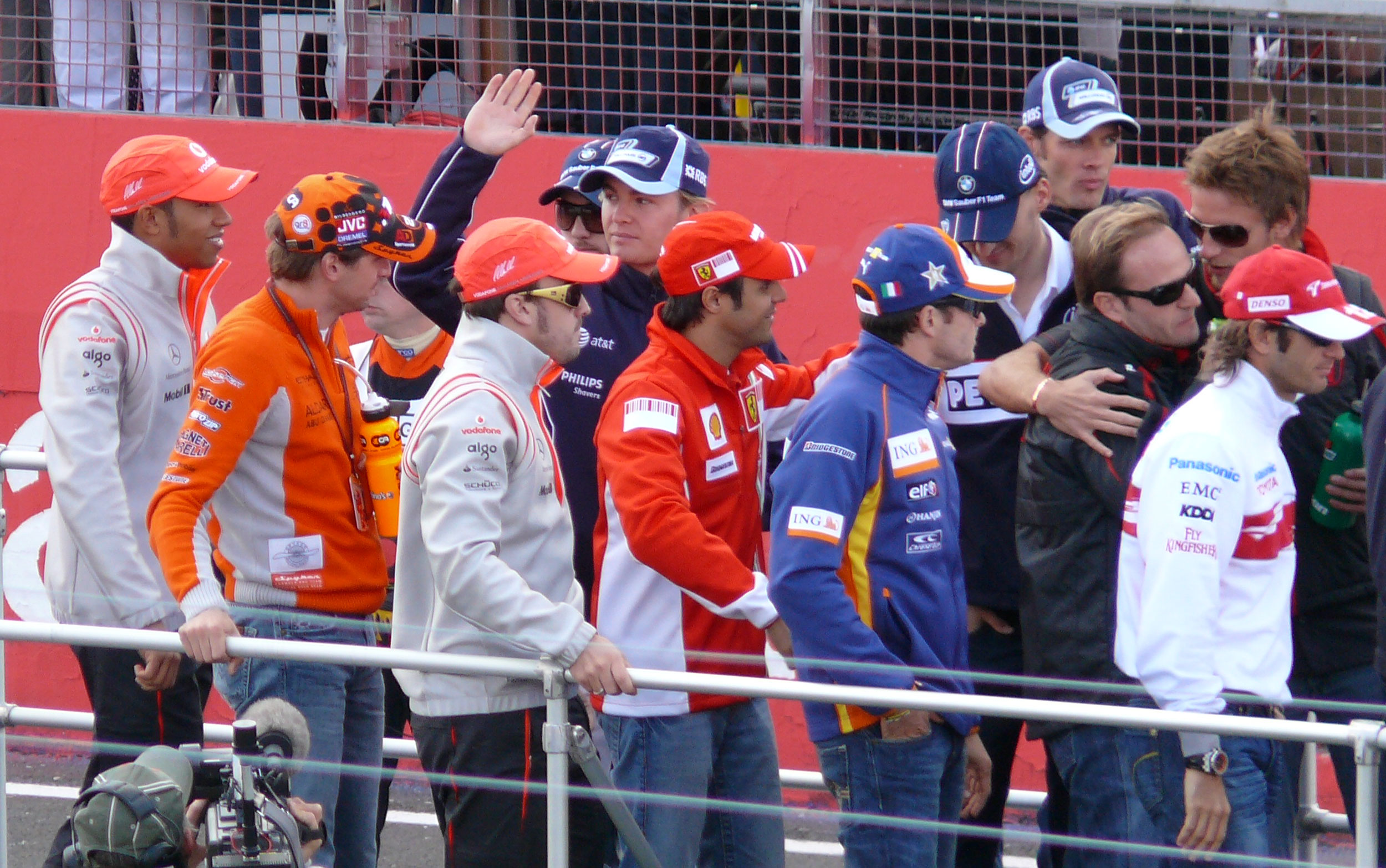 Drivers Parade